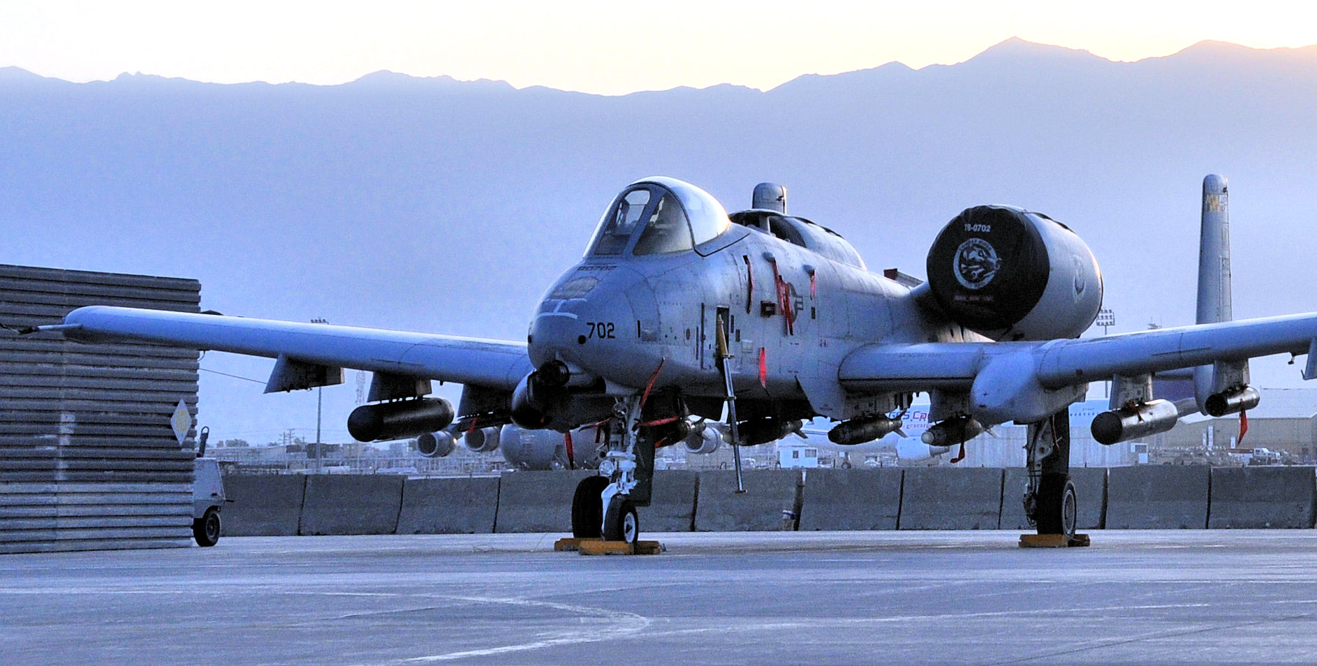 An A-10 Thunderbolt II sits on the aircraft ramp ar Bagram Airfield, Afghanistan. The aircraft was recently flown by A-10 pilot, "Zucco," in a harrowing mission to support ambushed Coalition forces fighting during dangerous weather conditions. Pilots and a dozen other pilots from their home unit, the 104th Fighter Squadron with the Maryland Air National Guard, protected about 90 coalition servicemembers during a major battle in the mountains of eastern Afghanistan. (U.S. Air Force photo/TSgt Shawn McCowan)